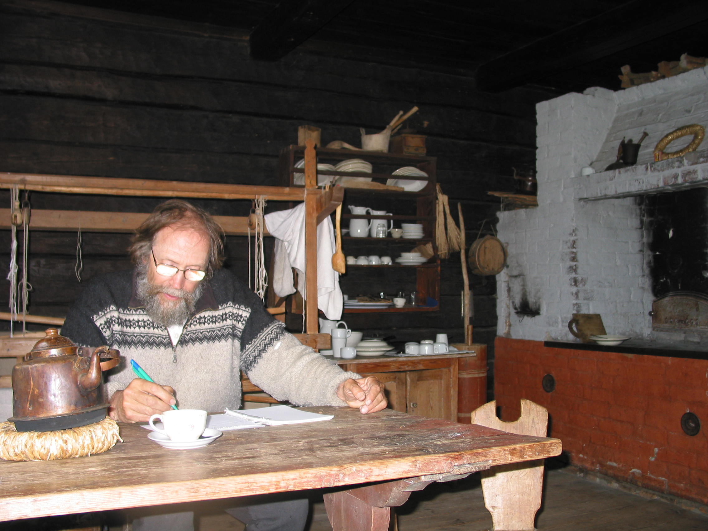 Korteniemi, Liesjärvi natural park, Tammela, Finland